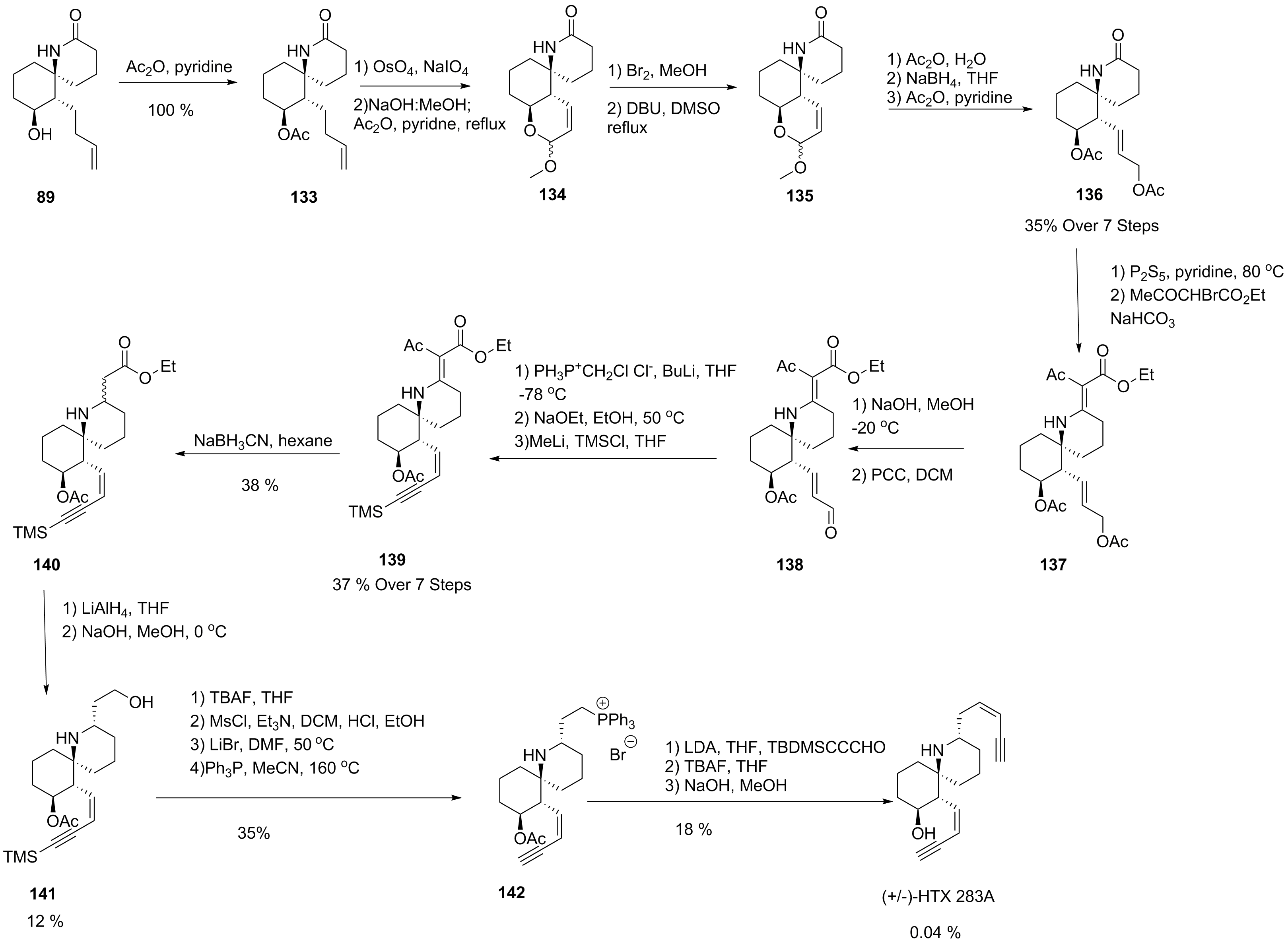 25 Step Synthesis of HTX presented by the Kishi group in 1985.